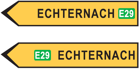 Diagram of road signs of Luxembourg